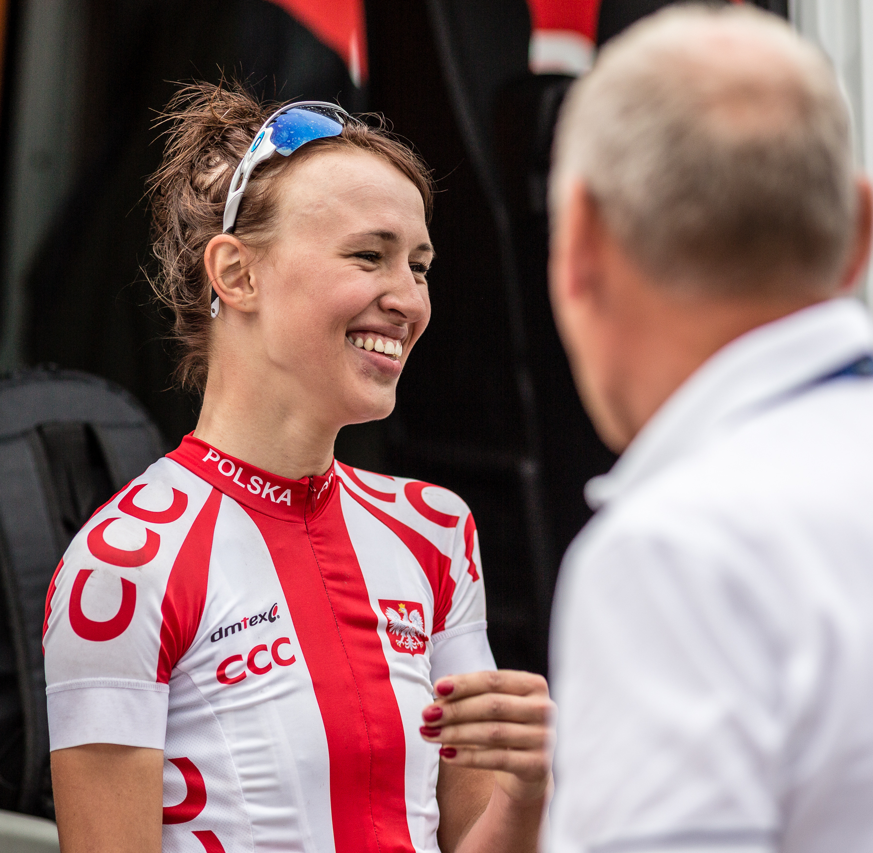 RR Women's Elite